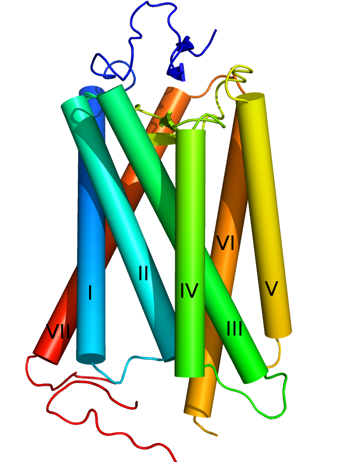 Structure model of rhodopsin based on PDB entry 1L9H showing the numbering of the transmembrane helices. Rendered using PyMol 1.4.1